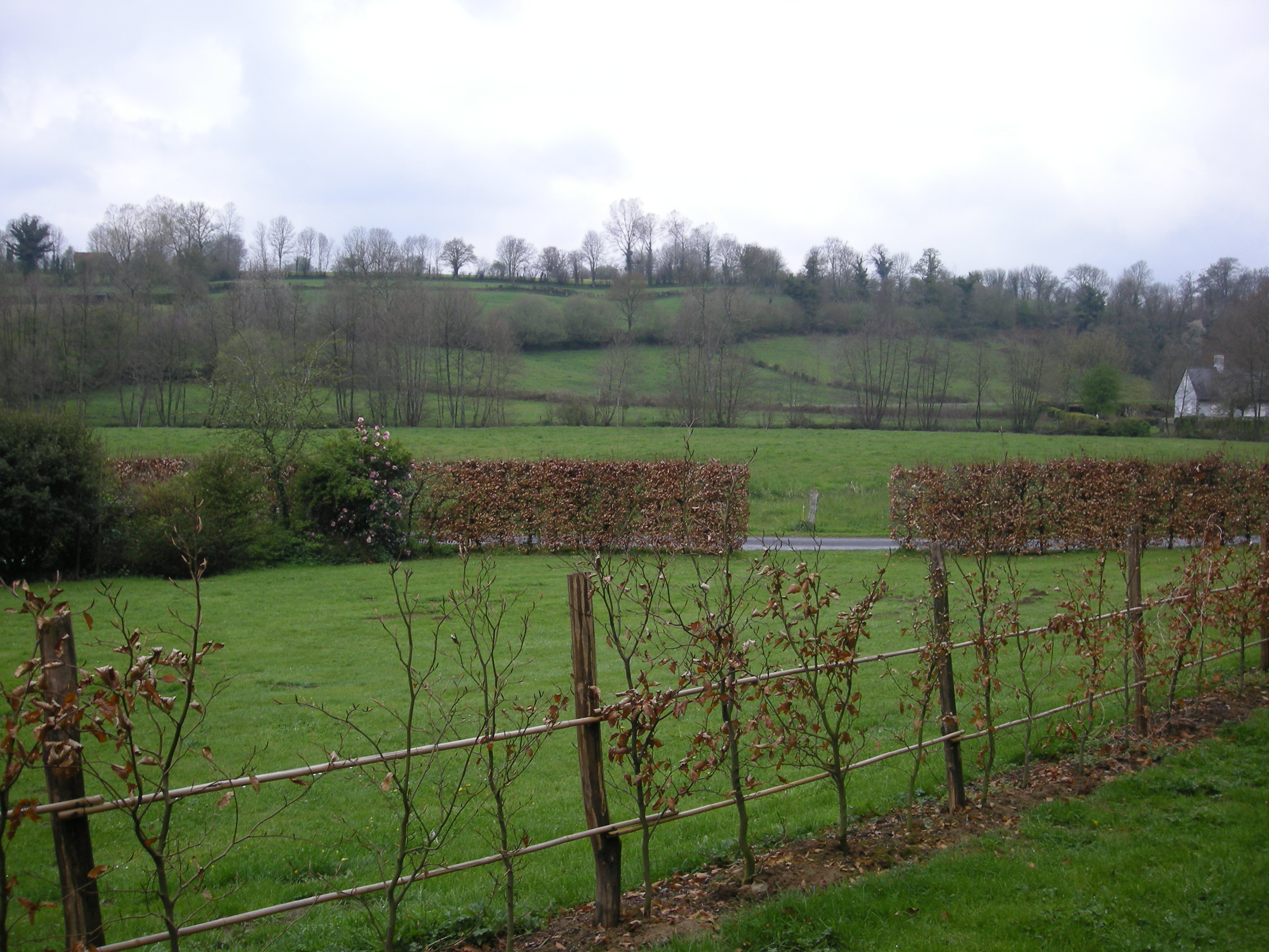 Aux abords de l'abbaye de Hambye (Normandie)